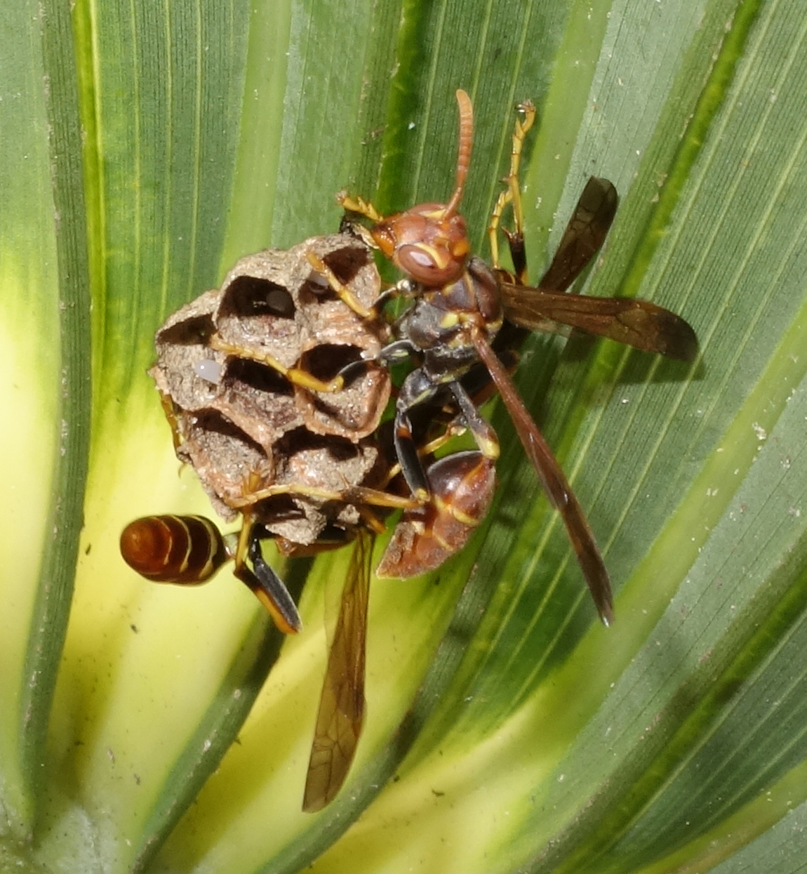 Mischocyttarus mexicanus paper wasp on palm in population studied by Floria Mora-Kepfer Uy at Kendall Indian Hammocks park.